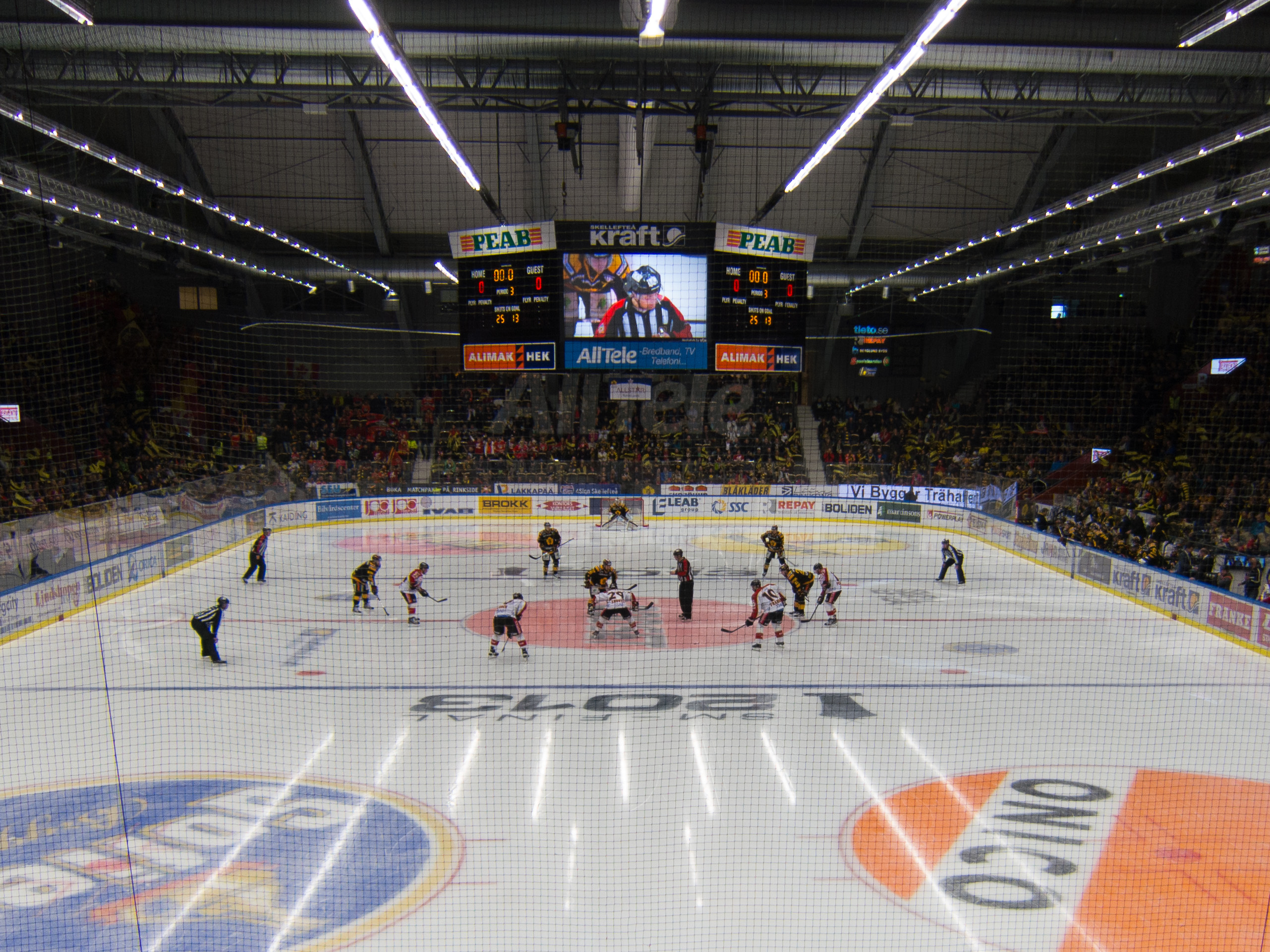 Match 1 between Skellefteå AIK and Luleå in SM-final of the Swedish Elite League